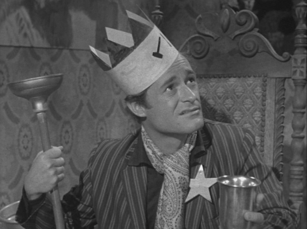 Profile image of actor Dick Miller in the public domain film A Bucket of Blood.